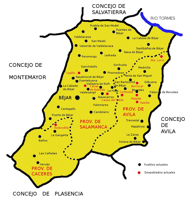 Mapa de la Comunidad de Villa y Tierra de Béjar